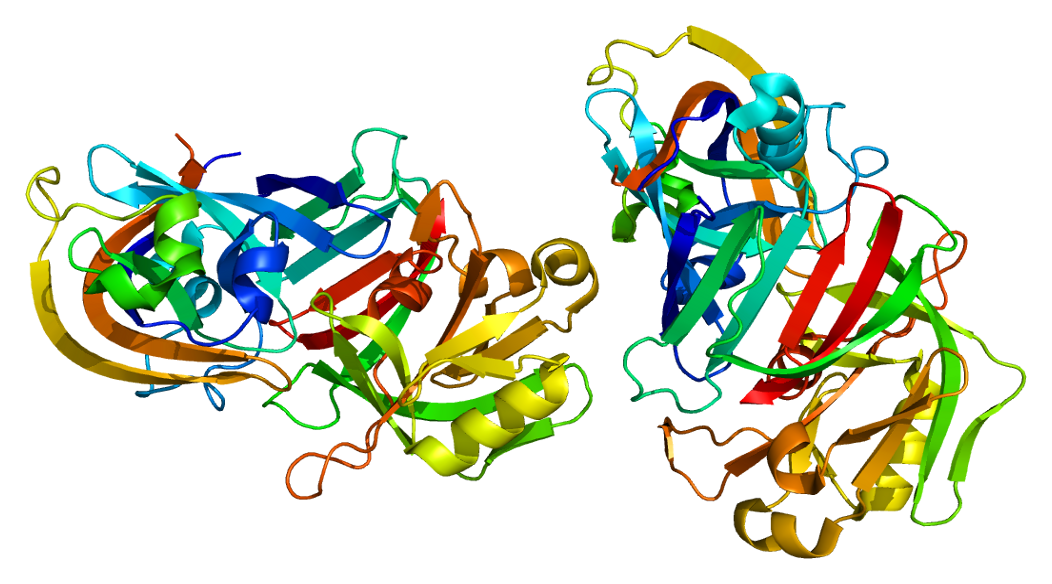 Structure of the CTSD protein. Based on PyMOL rendering of PDB 1lya.